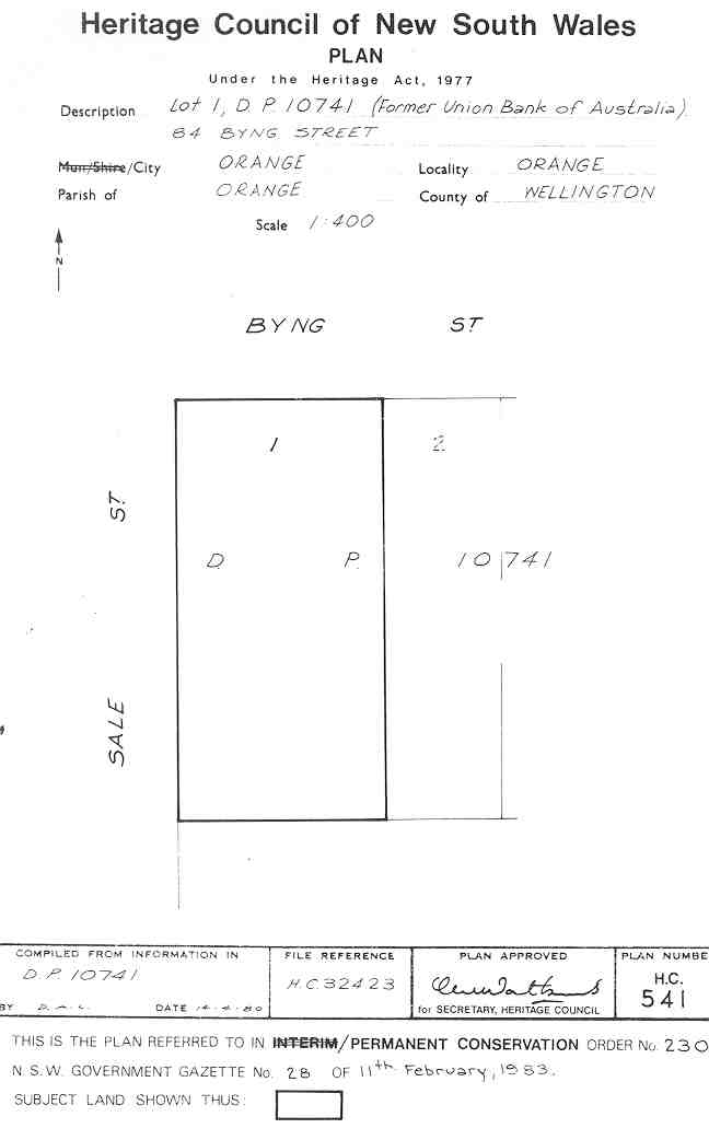 Union Bank of Australia building, Orange: PCO Plan Number 230